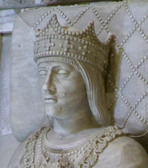 John II of Aragon